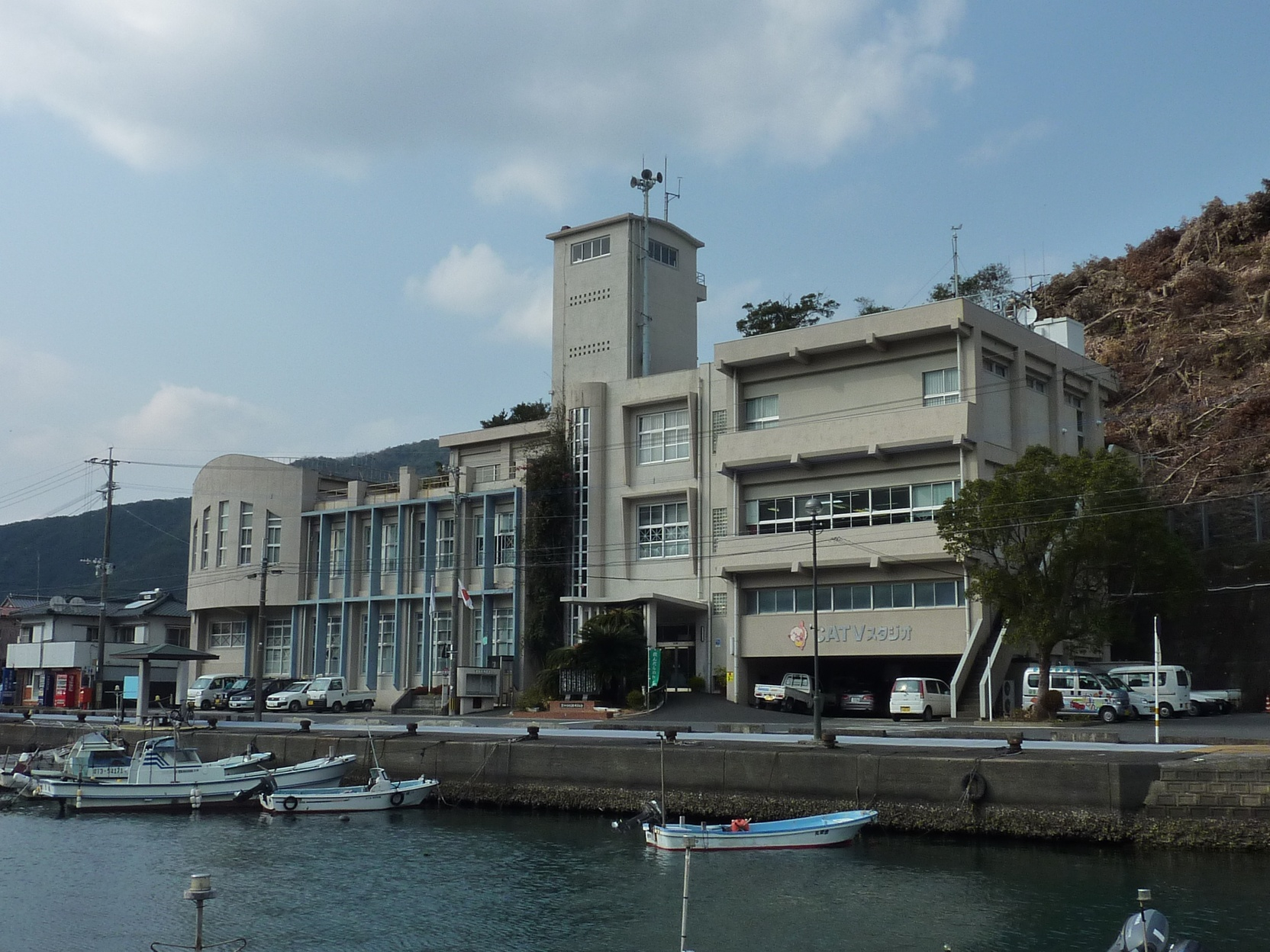 Saiki City Kamae Development Bureau in 2005 - 2018 (Former Kamae Town Office - Oita Prefecture, Japan)